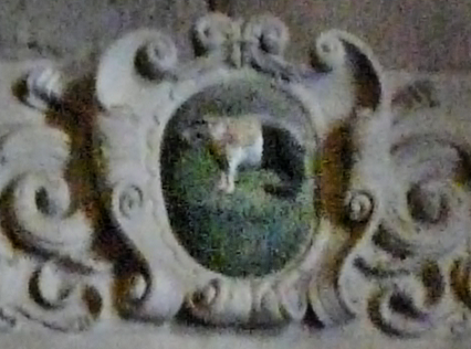 Sokola coat of arms of Martin Galczynski (Marcin Gałczyński) in his burial monument inside Gniezno Cathedral (circa 1573). It is a legendary creature half boar and half bear.